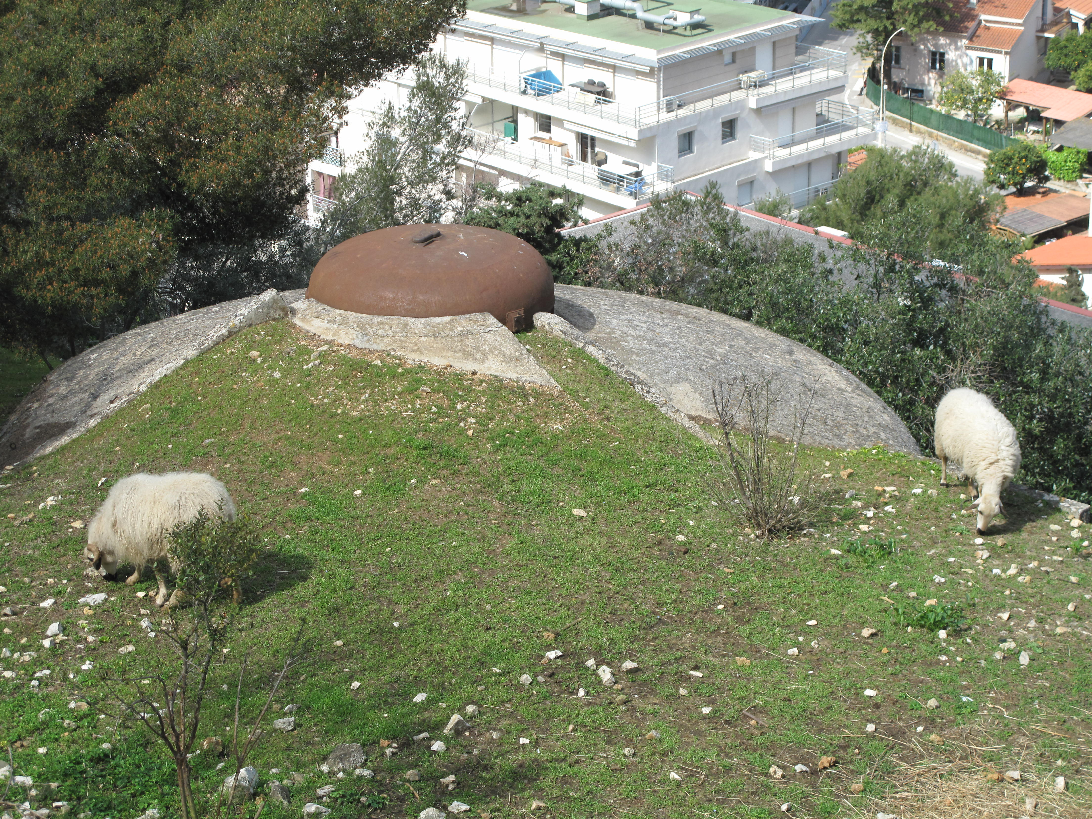 Sheep on the bunker of Cap-Martin (Alpes-Maritimes, France).